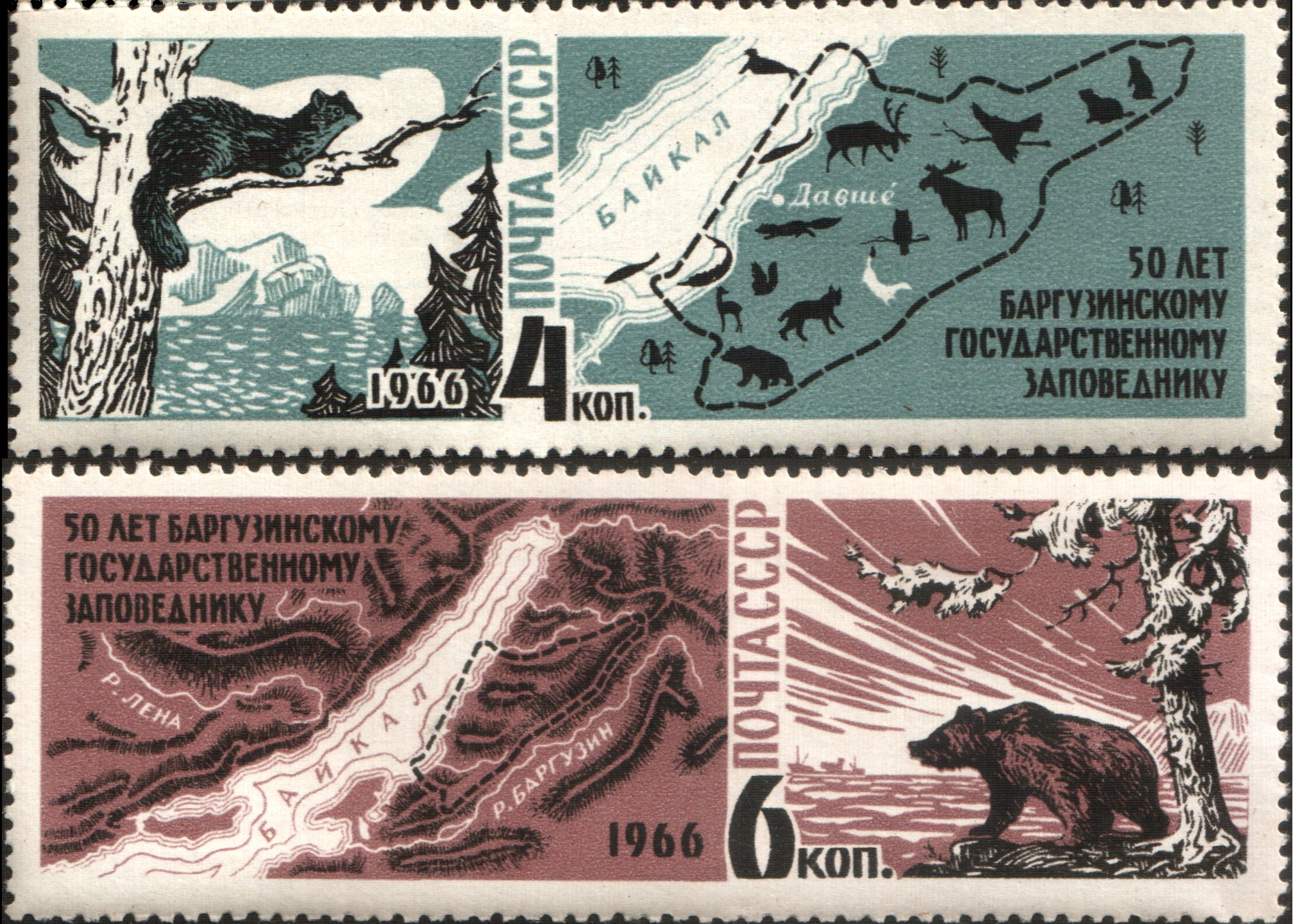 Two USSR stamps of 1966; 4 and 6 kopecks. 50th anniversary of Barguzin Nature Reserve.